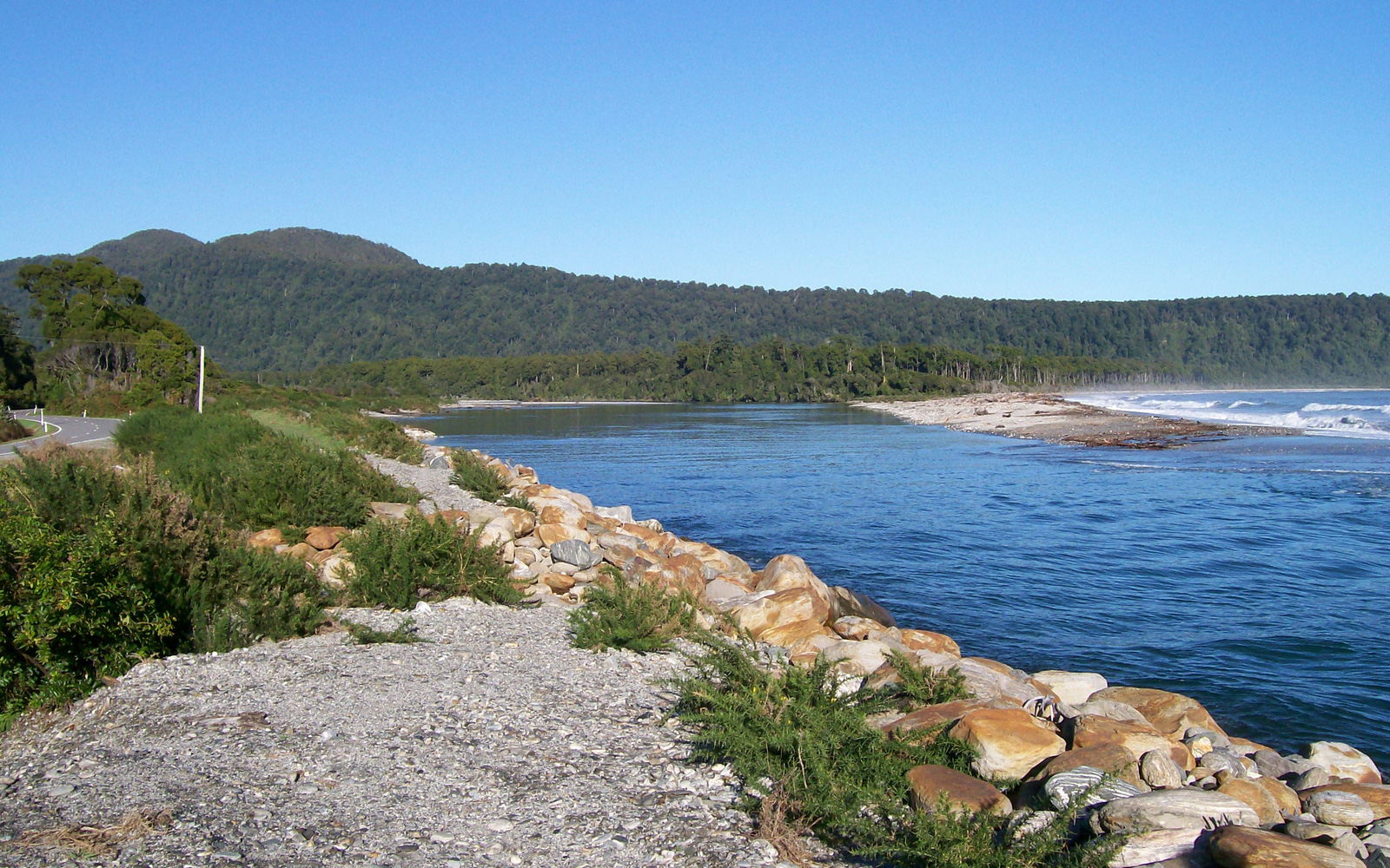 Mouth of the Mahitahi River, Bruce Bay, South Westland, New Zealand